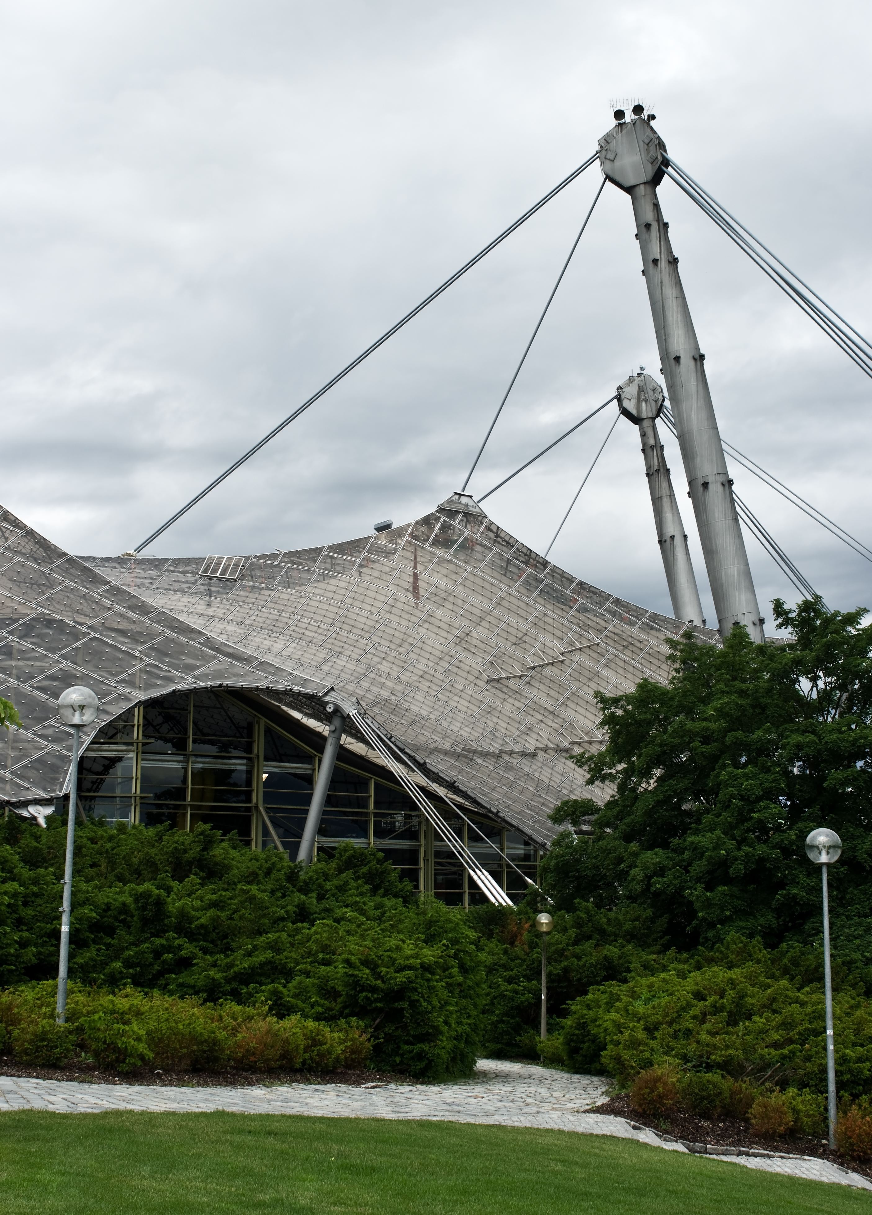 Olympiapark in Munich, Germany